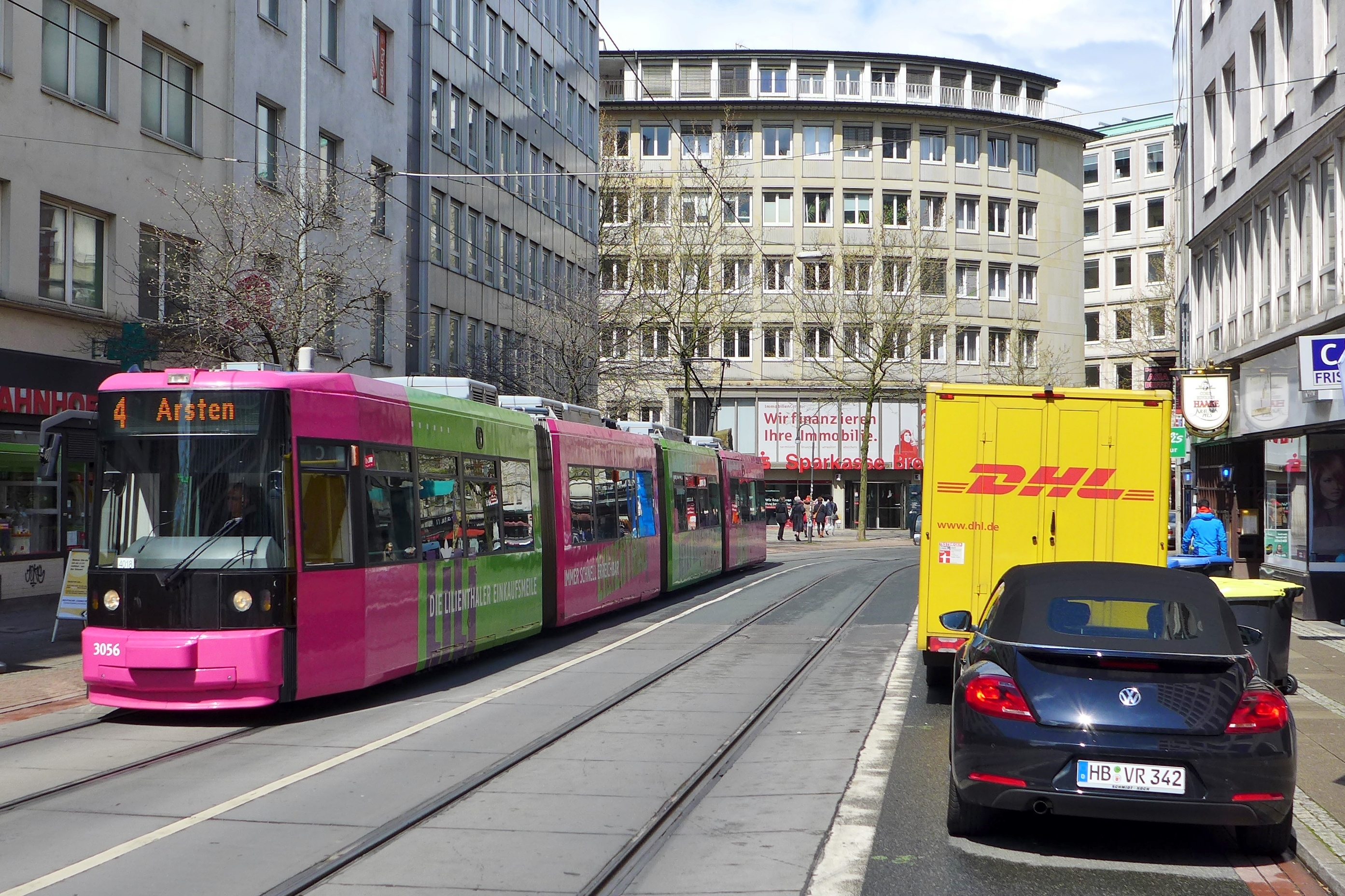 Bremer Straßenbahn AG (BSAG) tram no. 3056 operating an Arsten-bound line 4 service along Bahnhofstraße, Bremen, Germany.